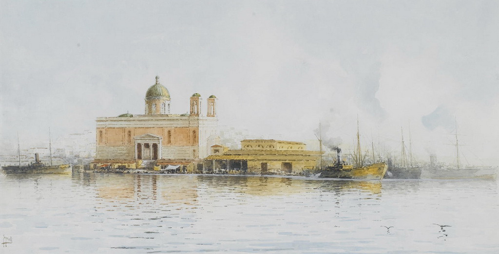 Customs House, Port Said,Egypt